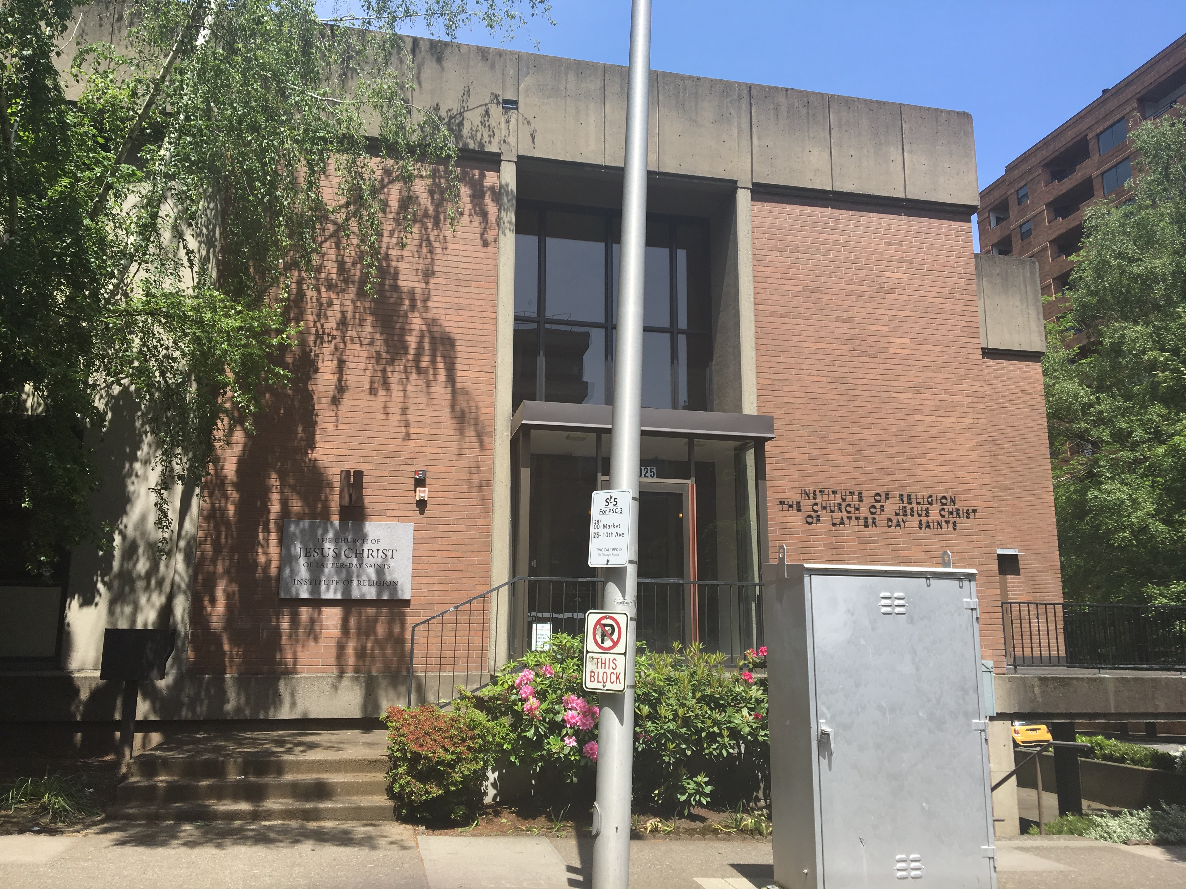 LDS Institute of Religion in downtown Portland